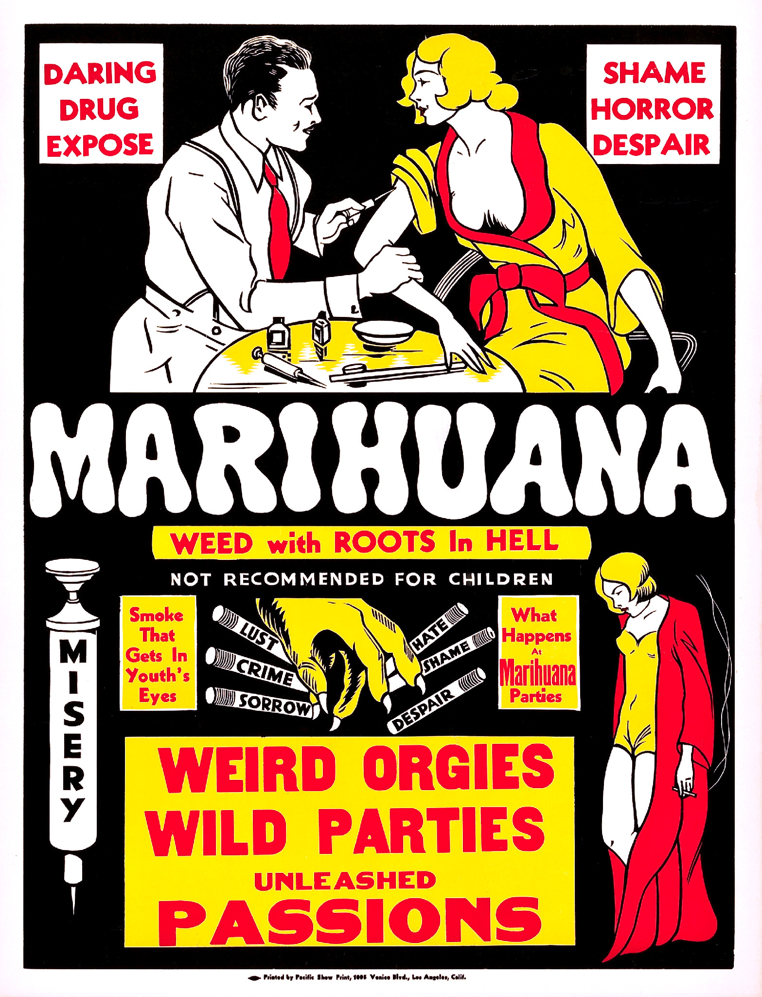 Poster for the 1936 film Marihuana. Searches were done for renewals in both film and artwork for the years 1963 and 1964 There were no listings for the title in film nor any for the title, Roadshow Attractions, or Pacific Show Print of Los Angeles (printer of the poster) in artwork. There's no evidence that copyright continues on the film, artwork or other items related to this film.